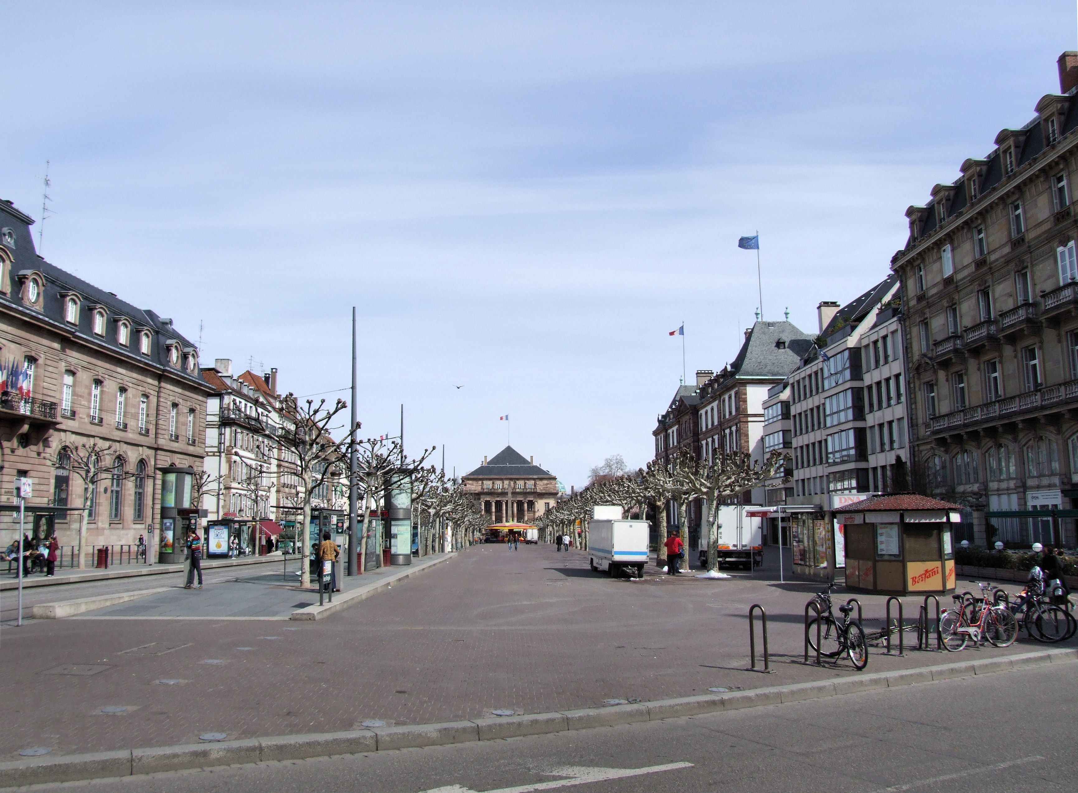 Place Broglie, a central square in Strasbourg